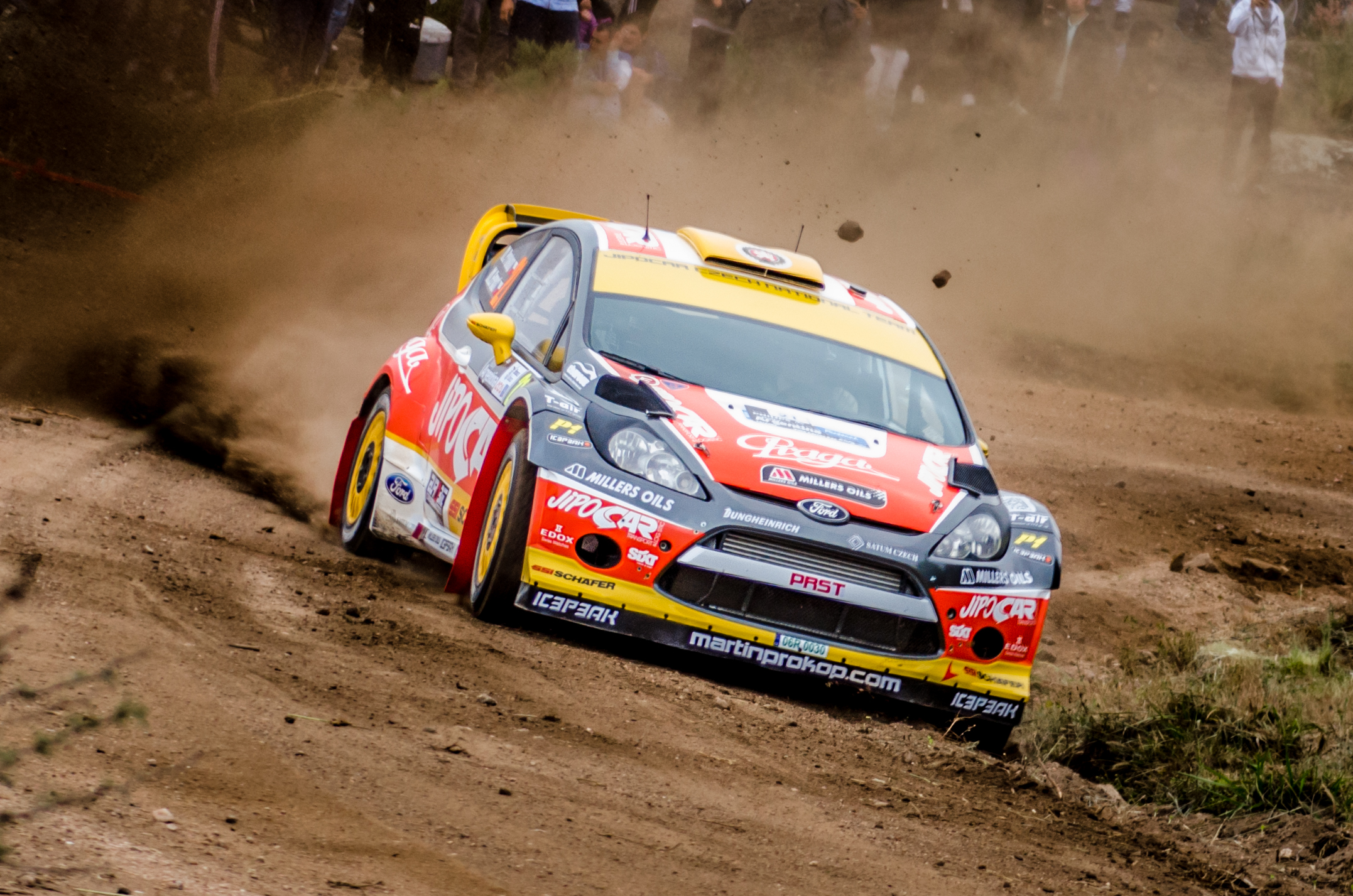 21 Martin Prokop and Michal Ernst Ford Fiesta RS WRC during WRC 2013 Argentina.